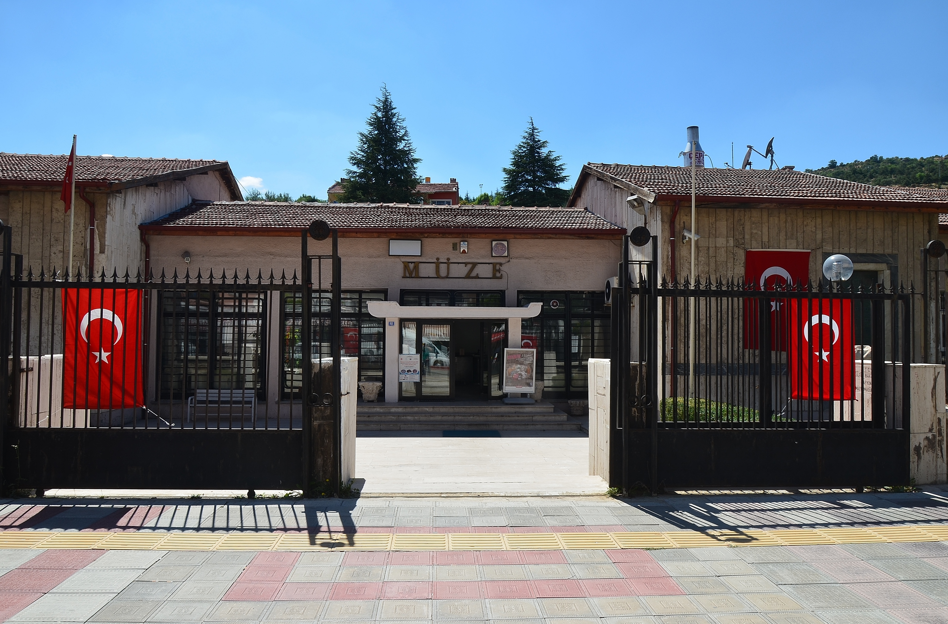 Building of Afyonkarahisar Archaeological Museum in Afyonkarahisar, Turkey